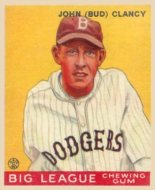 1933 Goudey baseball card of Bud Clancy of the Brooklyn Dodgers #32. PD-not-renewed.